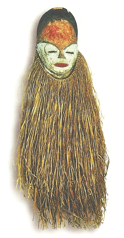 Bodi gabonese traditionnal mask from the Mitsogho ethny